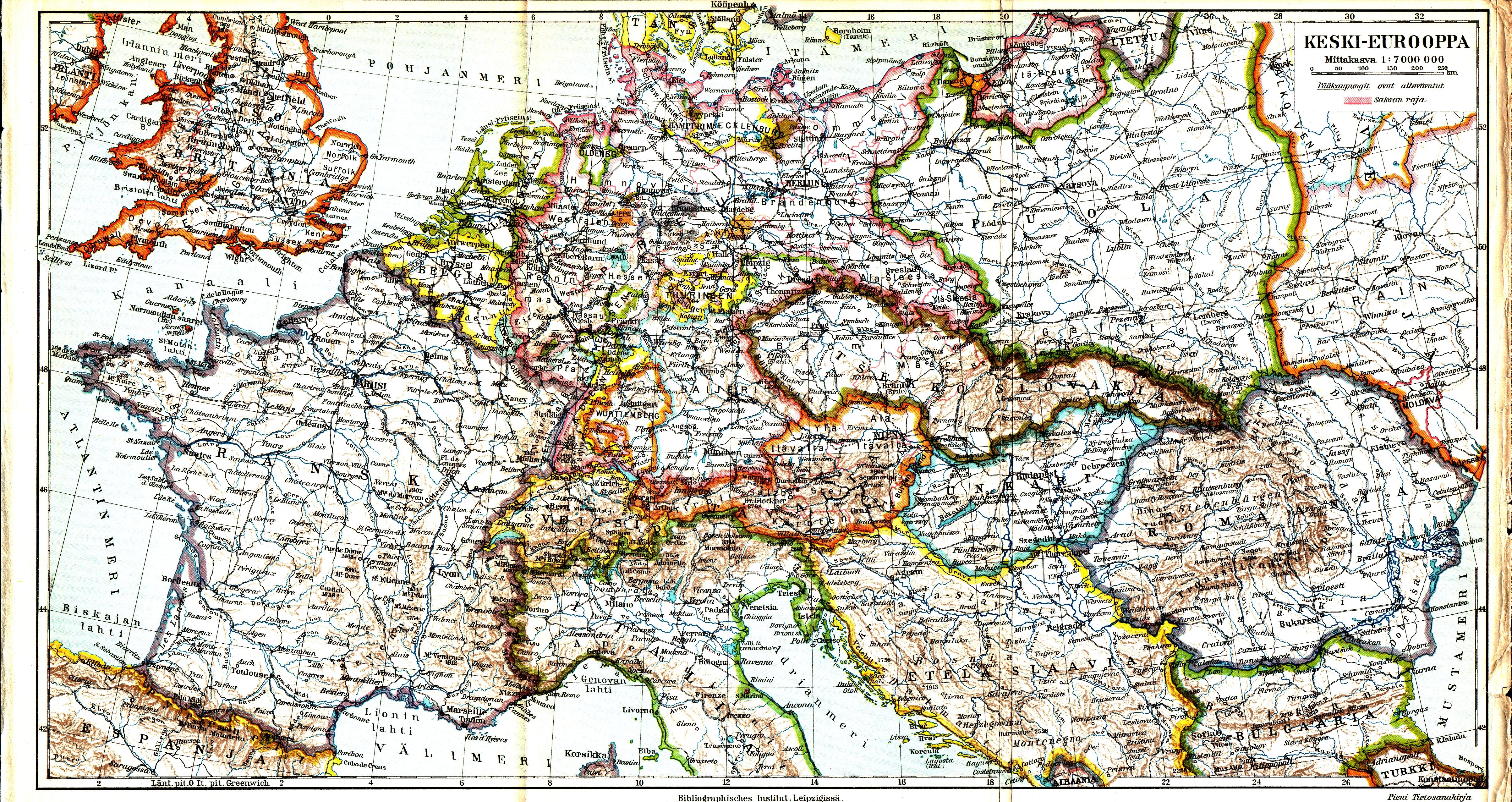 Map of central Europe with Finnish text.